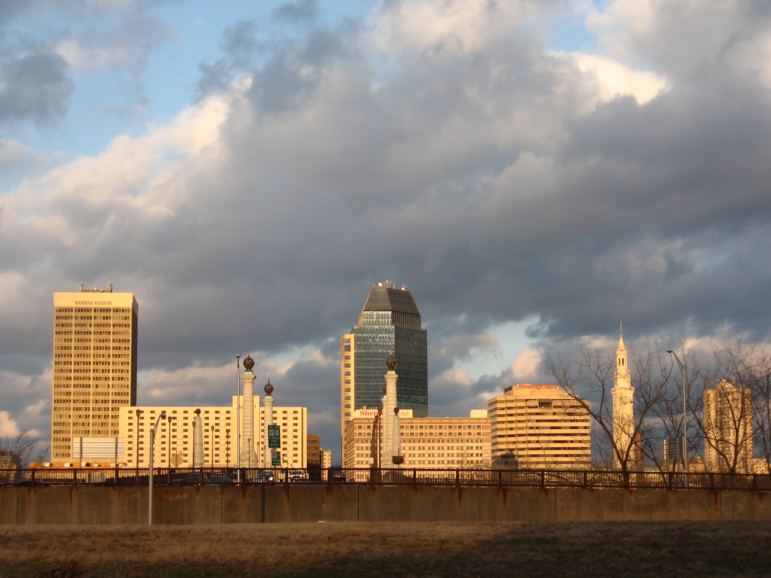 Downtown Springfield, MA, USA seen from across the Connecticut River. Towers are on the span of Memorial Bridge (Massachusetts).